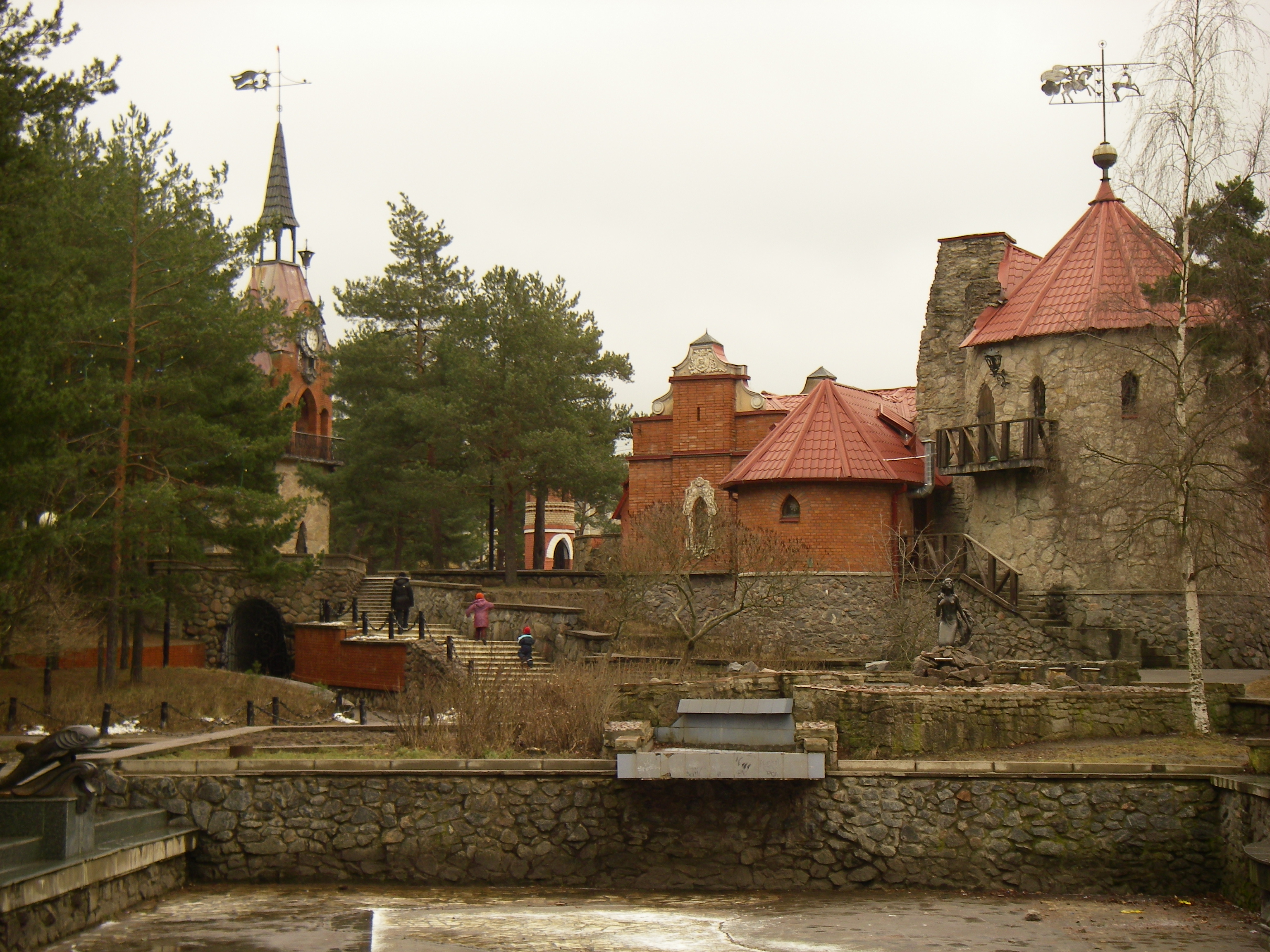 Andersengrad, part of Sosnovy Bor